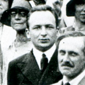 Truro 1930 Arthurian Society - International Arthurian Congress, Truro, August 1930 Professor C. B. Lewis attended the Congress, and made the list of participants inc. Dominica Legge. Second from left, R. S. Loomis, fourth from left Katharine Jenner, fifth from left Henry Jenner